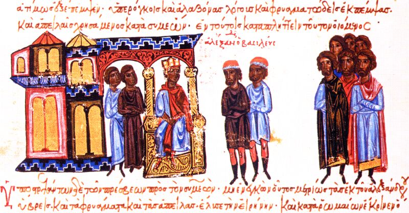 Bulgarian envoys by Alexandros